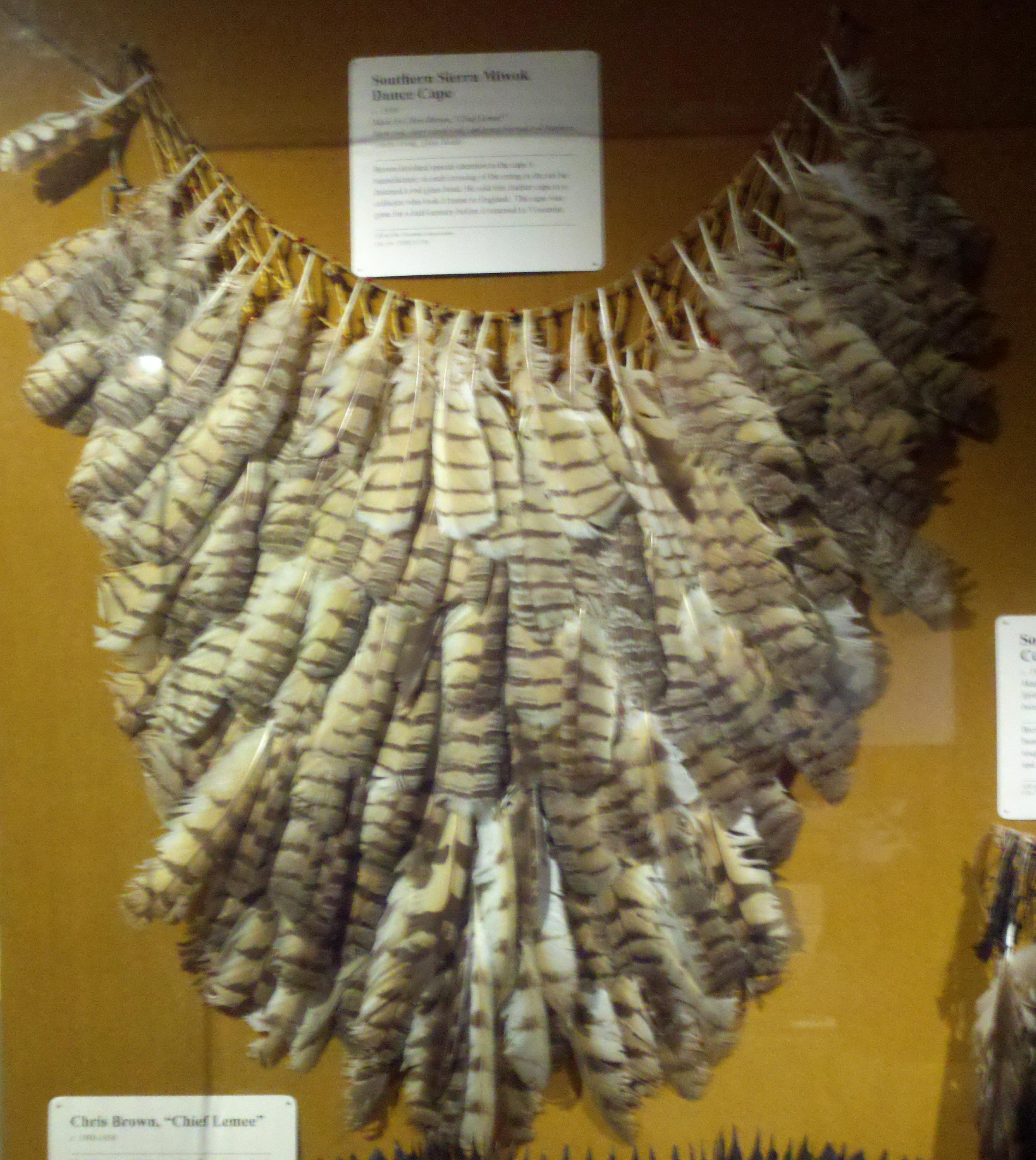 A photo of a "Southern Sierra Miwok Dance Cape", made ca. 1930 by Chris Brown. The cape is made of feathers from barn owls, short eared owls, and great horned owls, and is on display at the Yosemite Museum